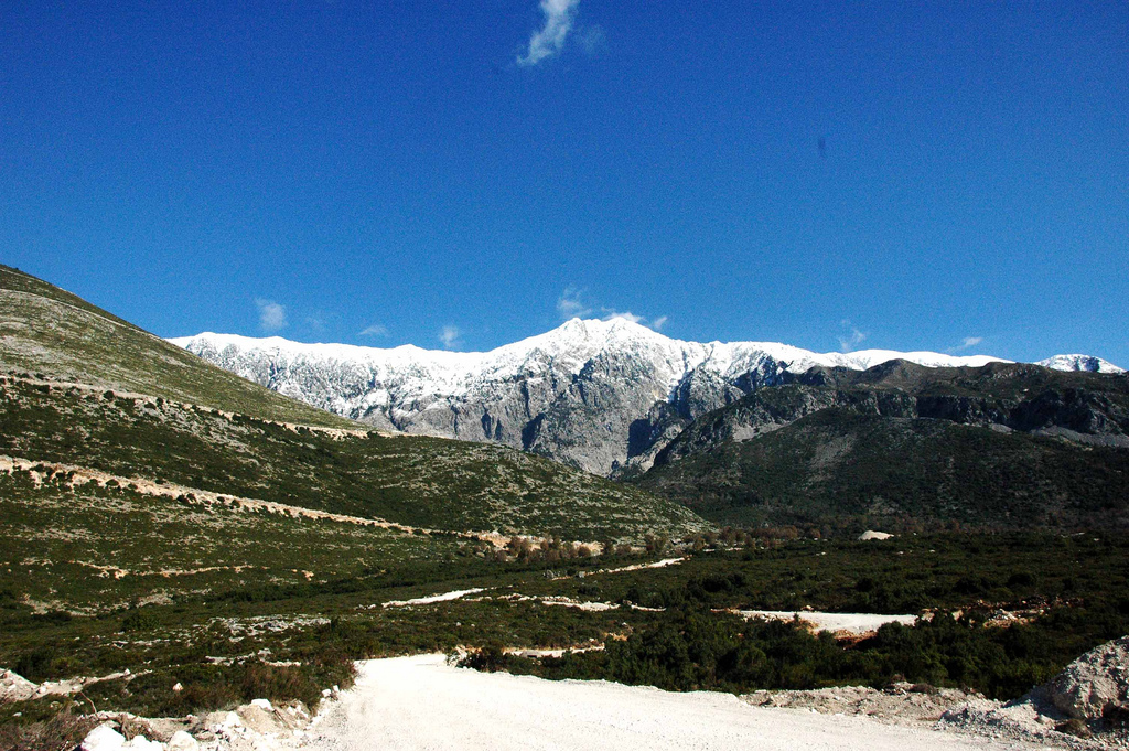 Maja Çika at the Albanian Riviera seen from the beach of the Ioanian Sea